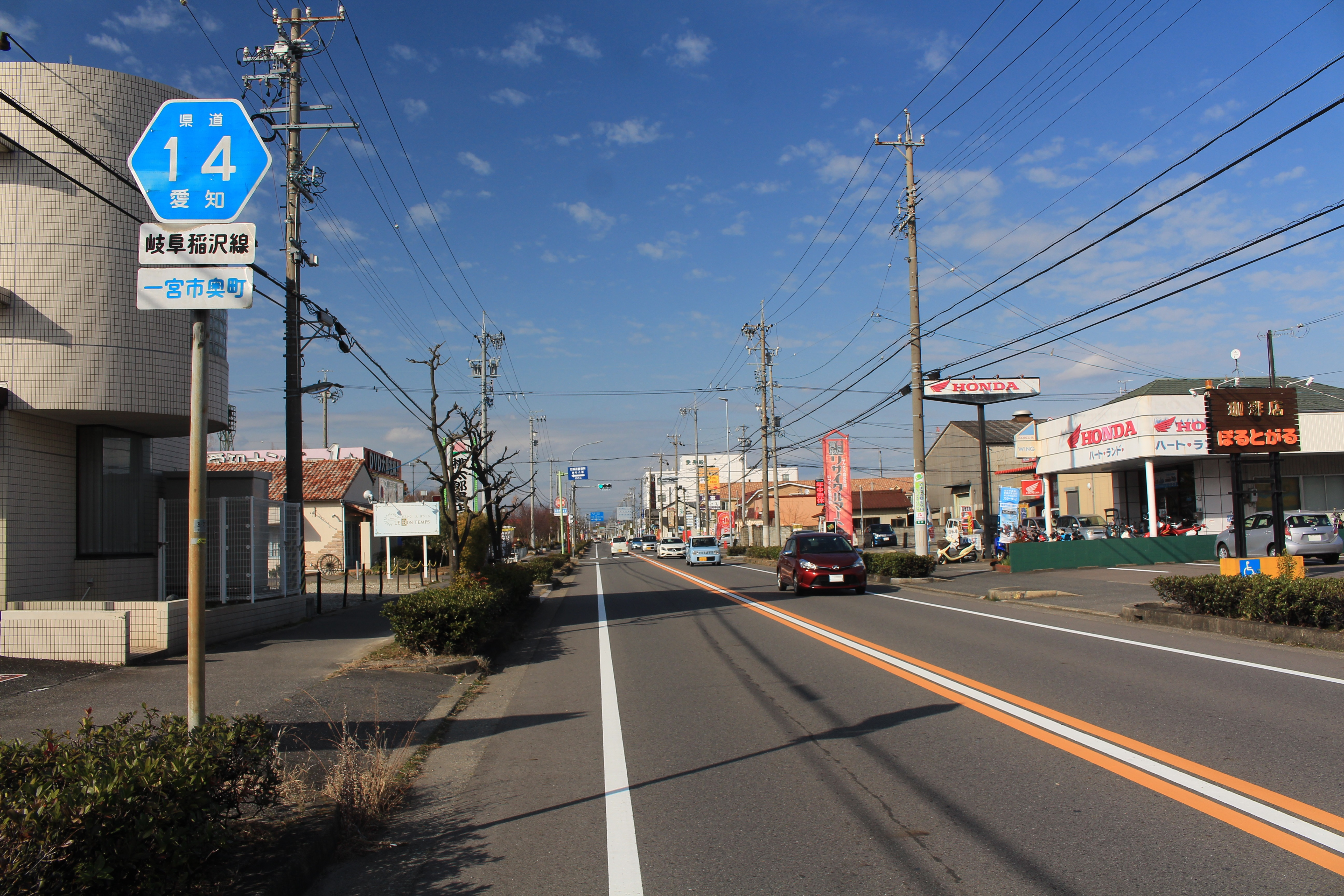 Aichi Prefectural Road 14 in Oku, Ichinomiya, Aichi prefecture, Japan.